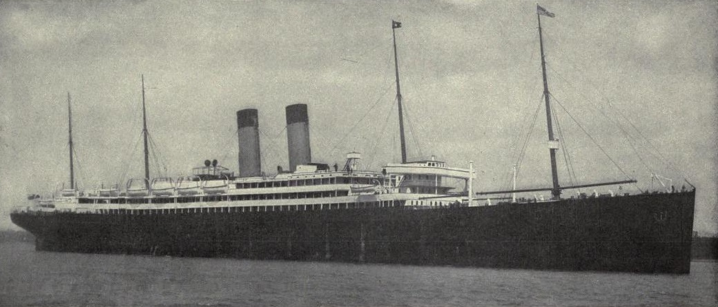 The steamship Adriatic was built by Harland and Wolff and was launched on 20 September 1906 as an ocean liner for White Star Line.